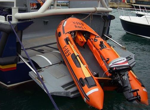 Cropped version of photograph Taken at Southampton Boatshow by Robert Kilpin, this photo shows the back of the Tamar class lifeboat where the Y class boat is stored.